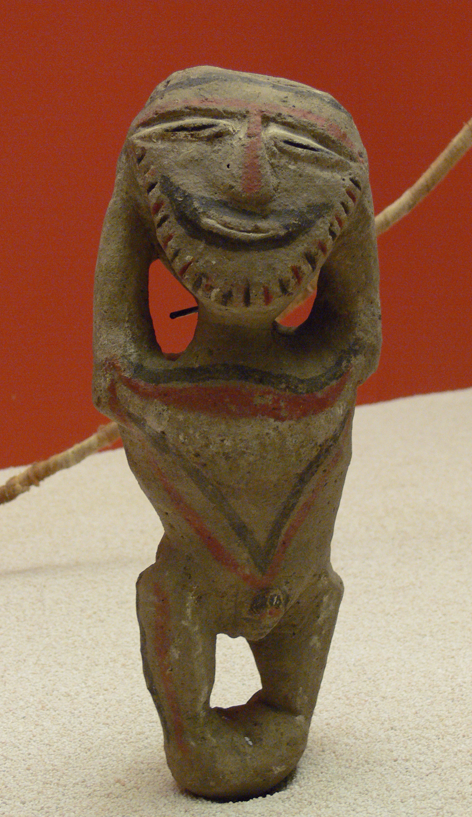 Tolai people, Gazelle Peninsula of New Britain, Papua New Guinea: Human double stone figure (with a male and a female side) of the iniet society of men, representing an ancestor or familiar spirit (South Seas Department, Ethnological Museum, Berlin, Germany, Thurnwald collection, 1907).